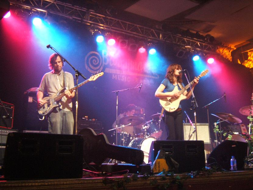 Land of Talk performing at the Barrymore's Music Hall in Ottawa, Ontario, Canada